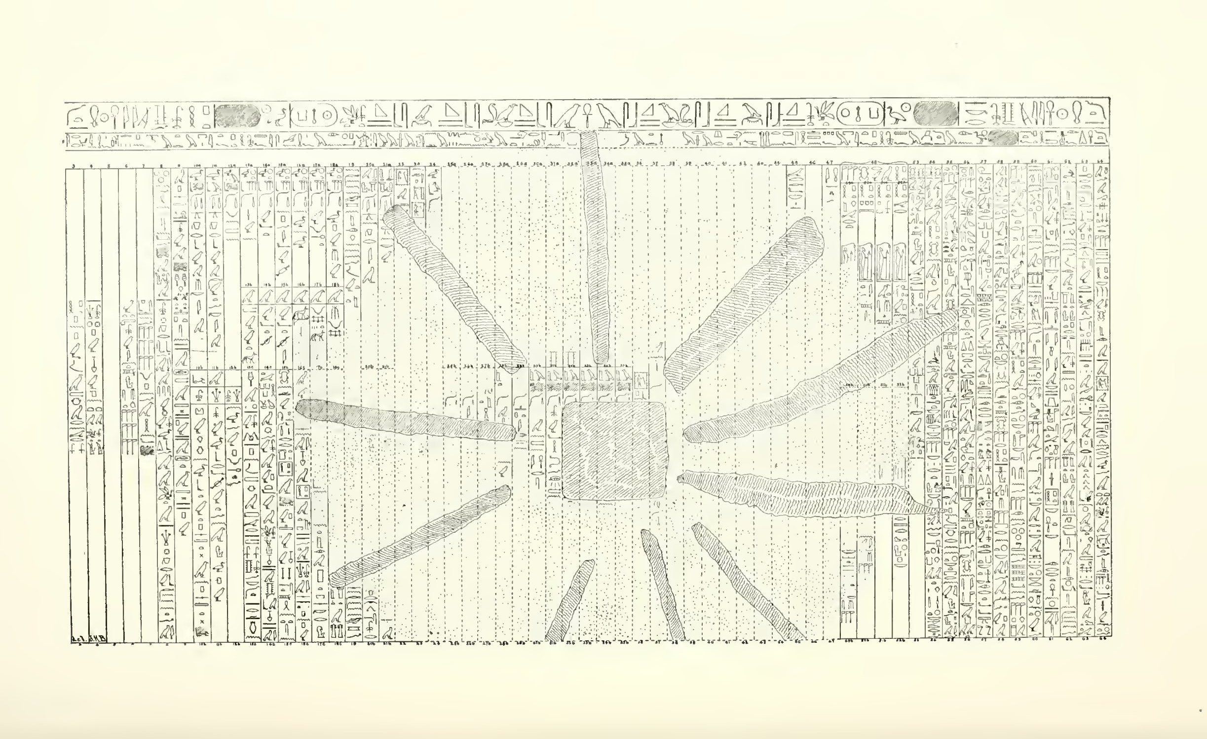 The "Shabaka Stone", bearing an inscription outlining the creation myth centred on the god Ptah; circa 710 BC, British Museum EA 498. Epigraphic copy by James H. Breasted